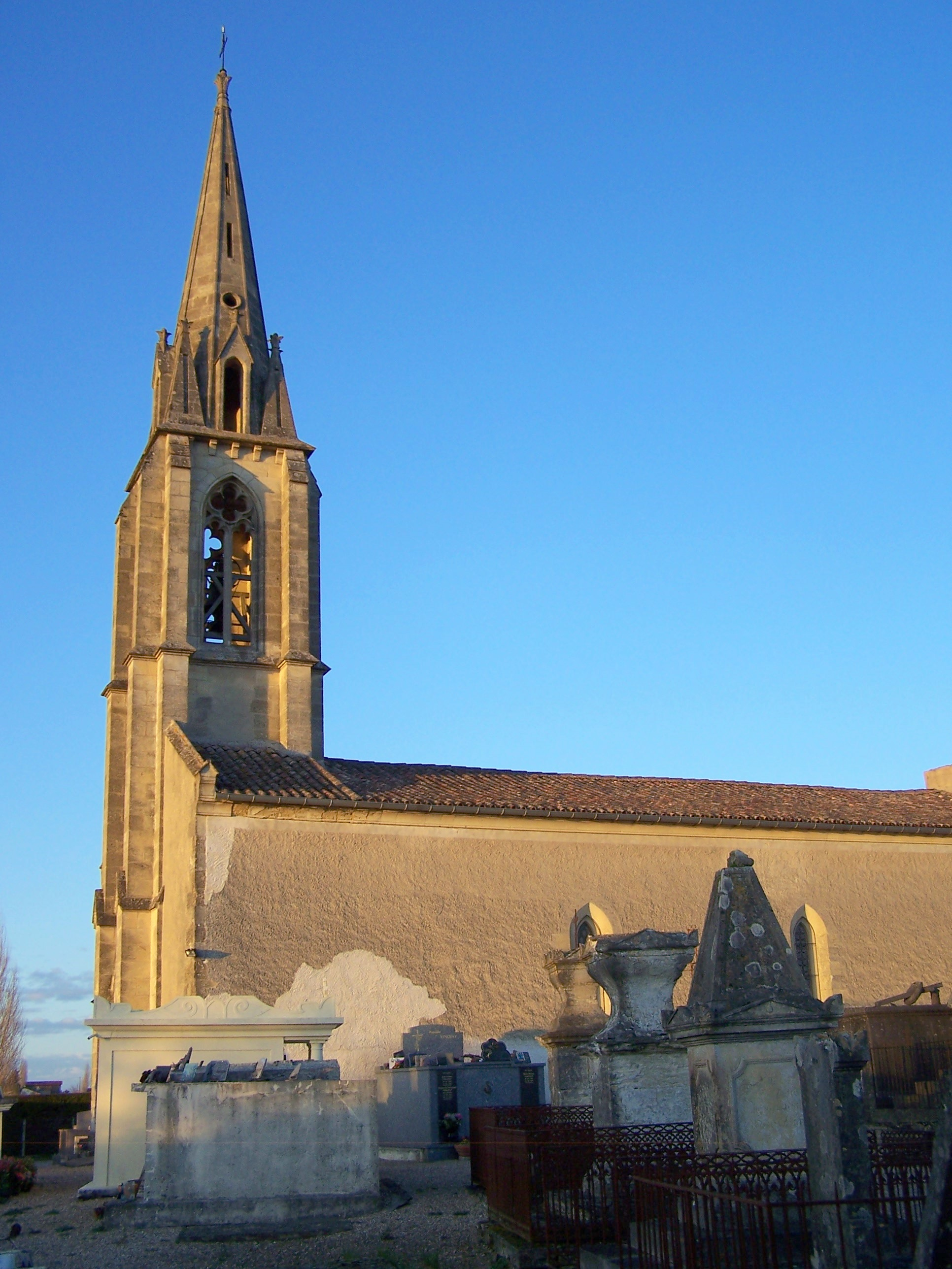 Church of Montagoudin (Gironde, France)